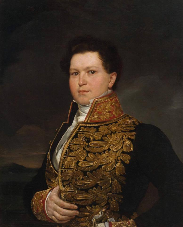 Krivtzoff Pavel Ivanovich